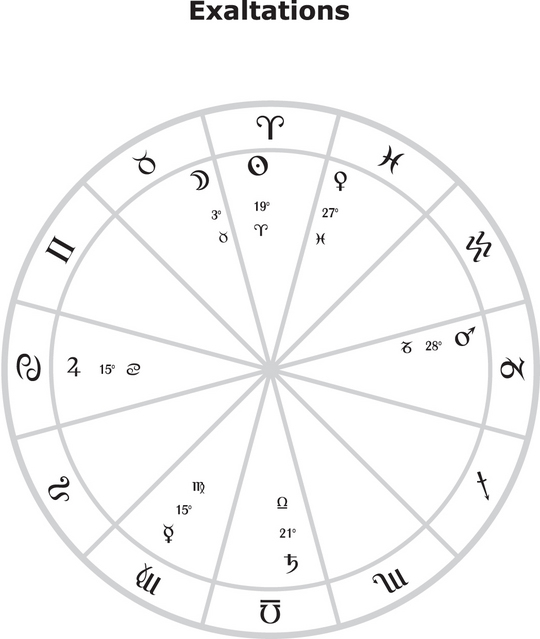 This diagram gives the degree placements of the planets in their respective zodiac signs.